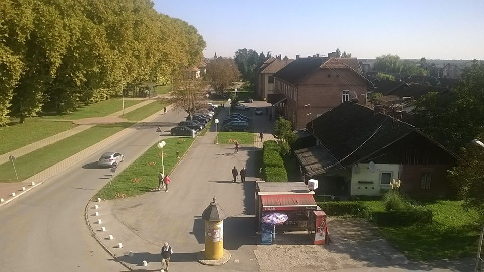 Durdenovac, a picturesque town in Slavonia, Eastern Croatia.